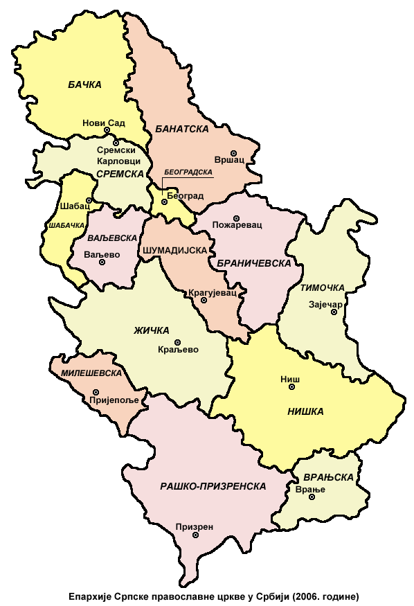 Eparchies of the Serbian Orthodox Church in Serbia (as of 2006) - Serbian language version.